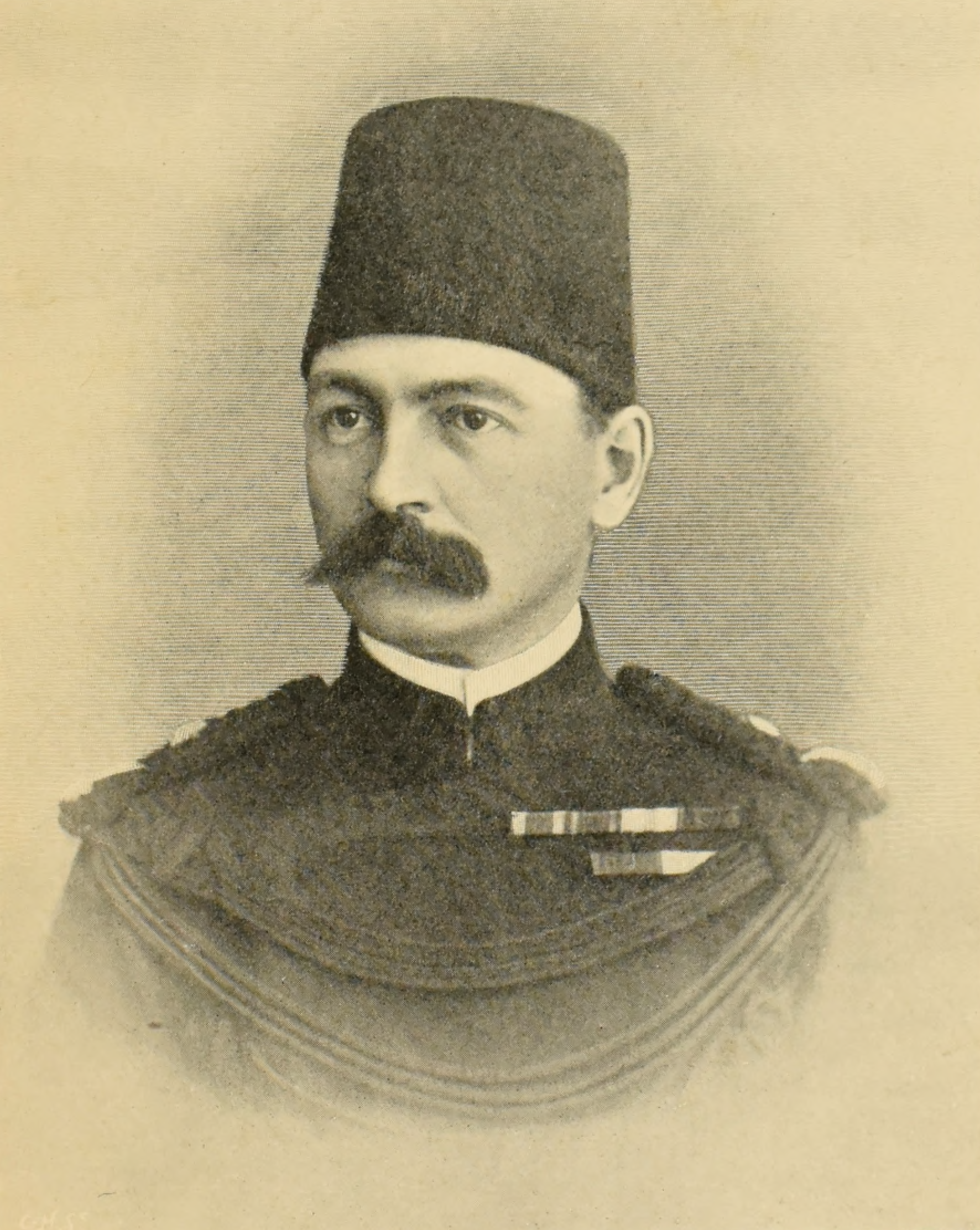 Major-General Rundle, C.M.G., D.S.O.